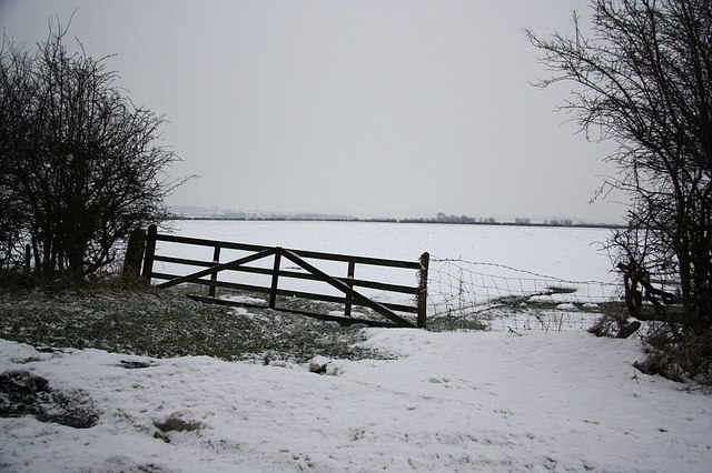 Ropsley snow scene Field gate and snow covered farmland near Ropsley